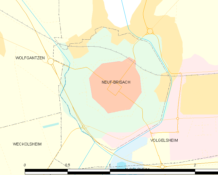 Map of French municipality